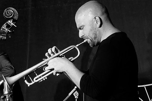 Sebastian Studnitzky in Aarhus, Denmark 2015